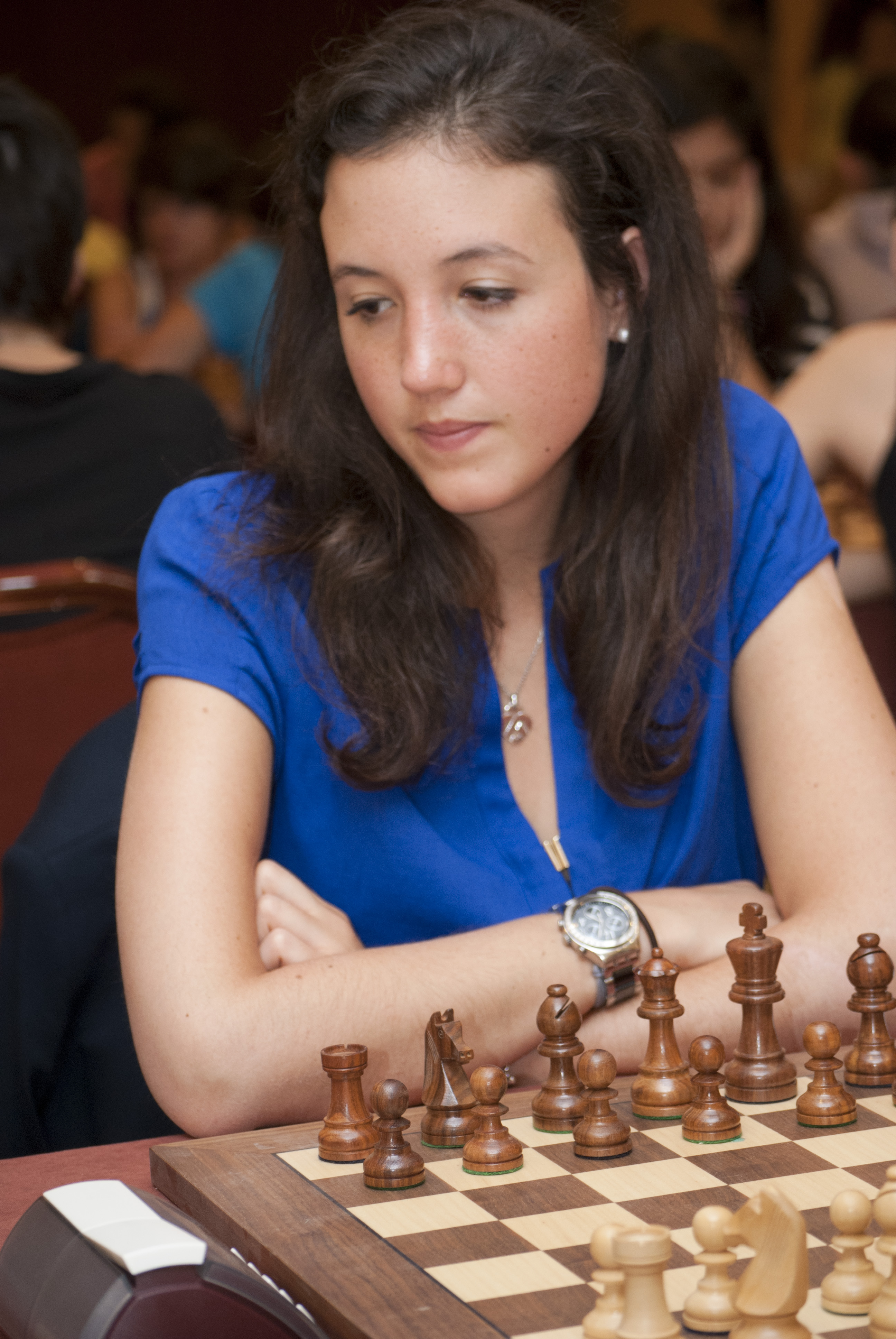 WFM de Seroux Camille, World Junior Championship 2012, Athens